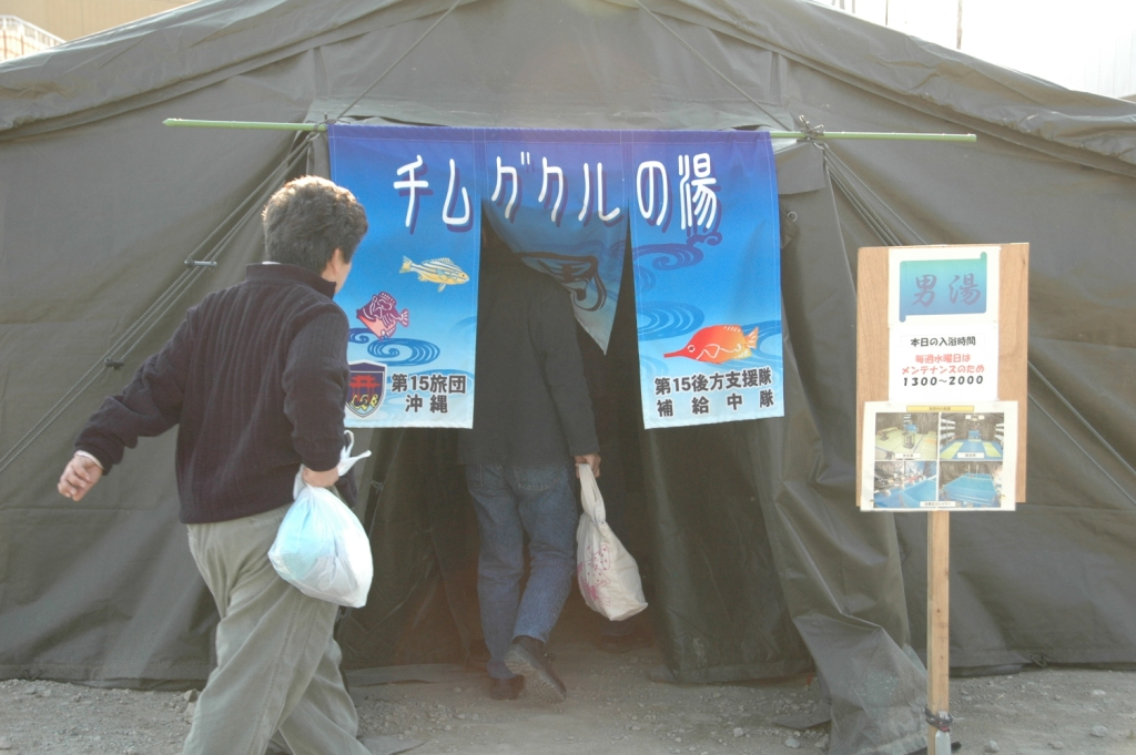 Title 23.4.13 １５Ｂ：入浴支援（多賀城駅周辺）⑥.JPG Album 東日本大震災における災害派遣活動 入浴支援活動